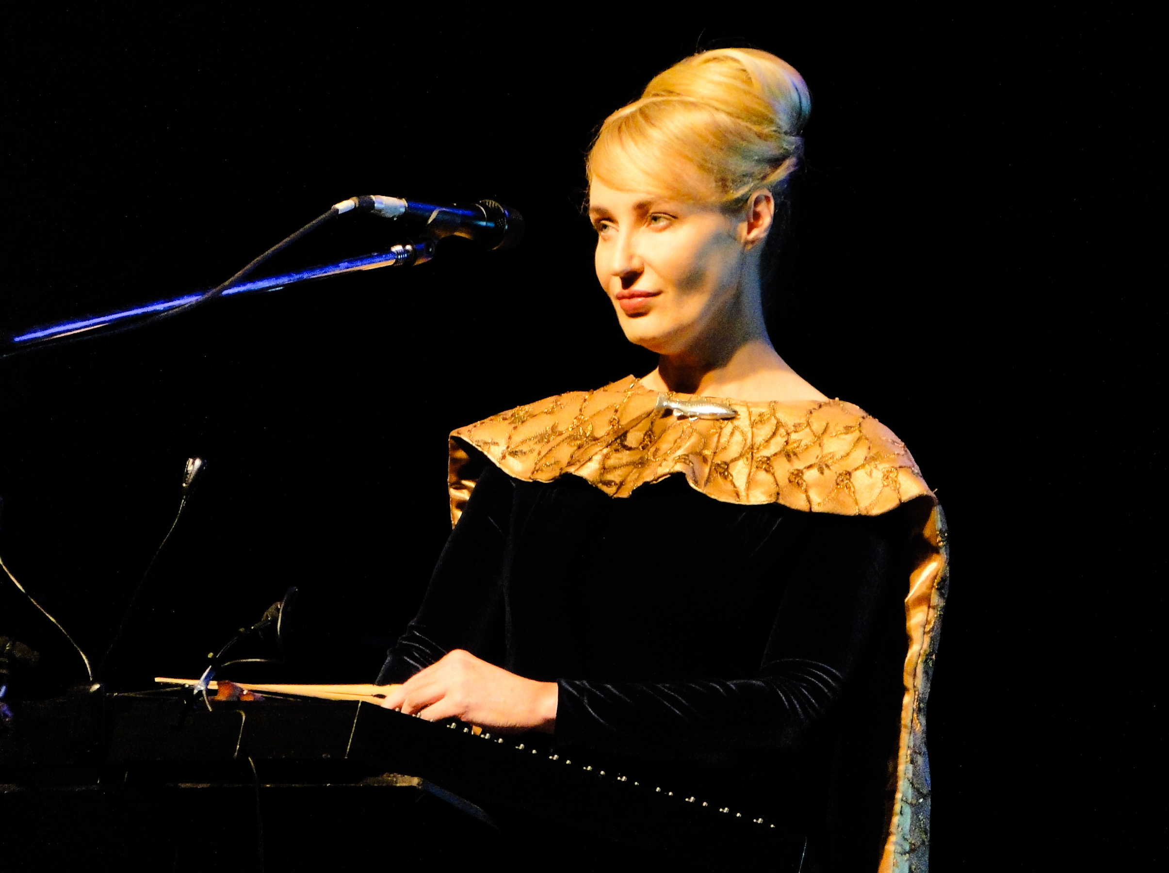 Lisa Gerrard live at Teatro Vorterix, Buenos Aires, Argentina in 2012.